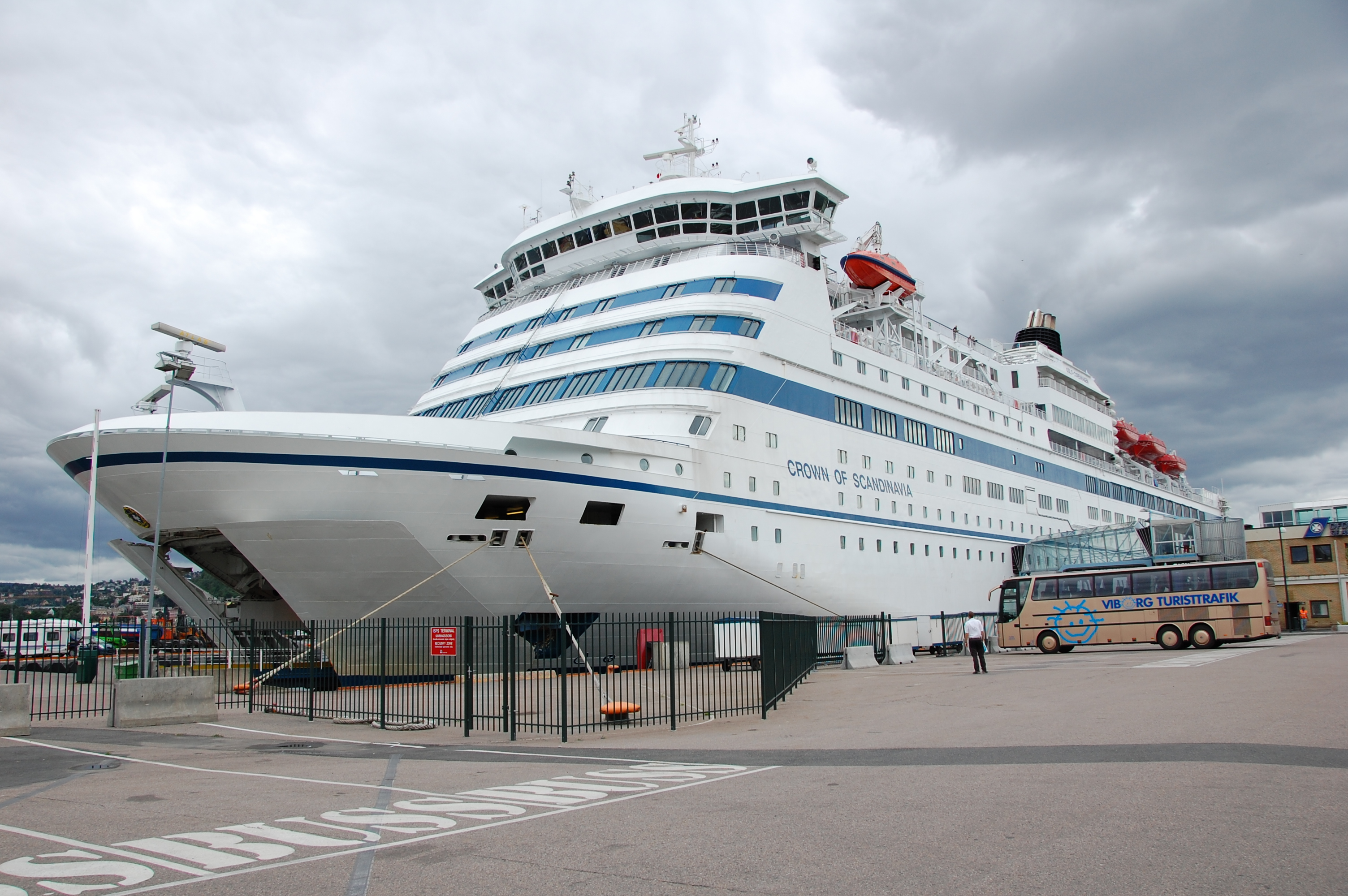 M/S Crown of Scandinavia, a ferry between Oslo and Copenhagen. IMO Number: 8917613 MMSI Number: 219592000 Callsign: OXRA6 Length: 171 m Beam: 27 mCrown of Scandinavia